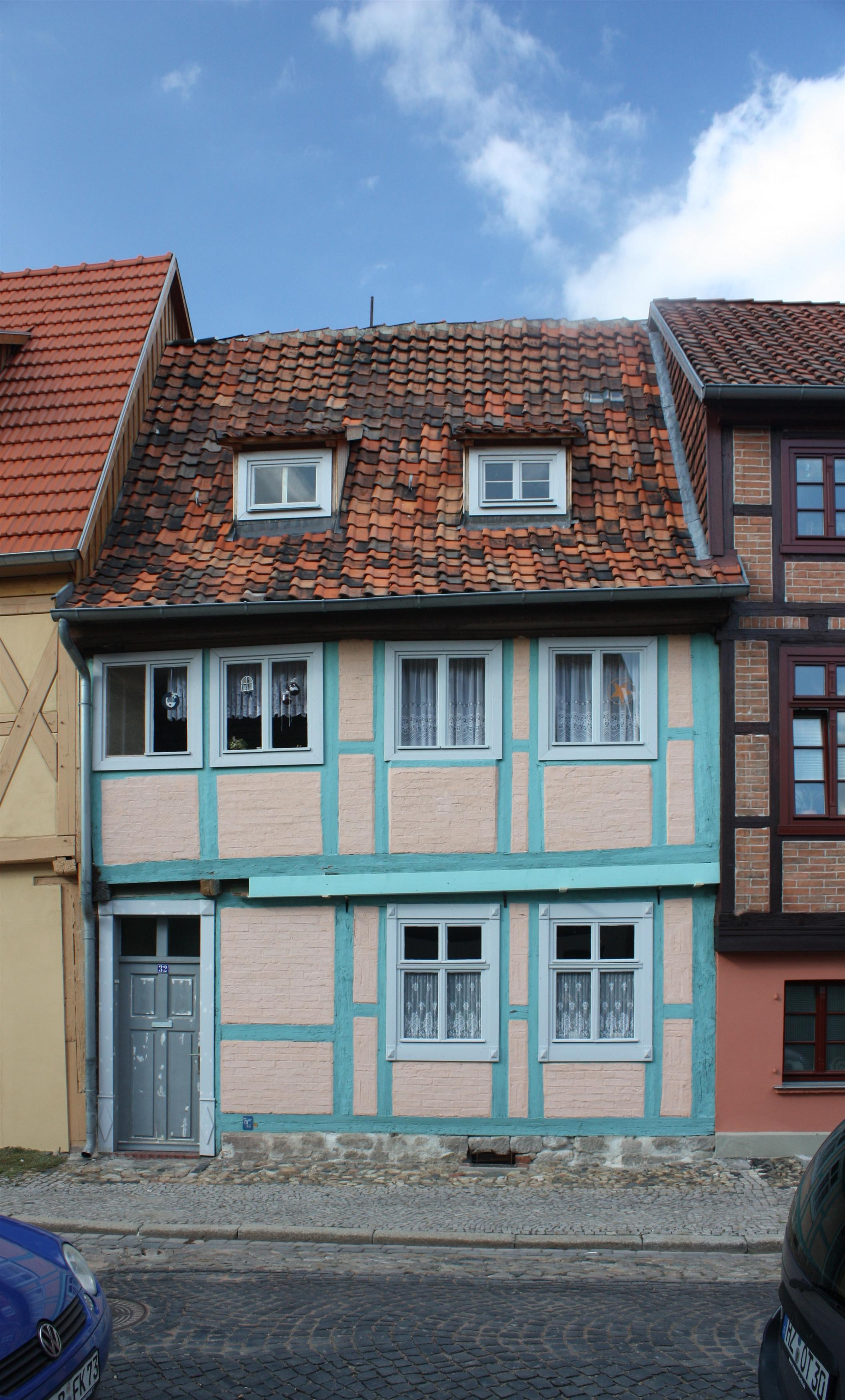 This is a photograph of an architectural monument.It is on the list of cultural monuments of Quedlinburg Augustinern 32 in Quedlinburg